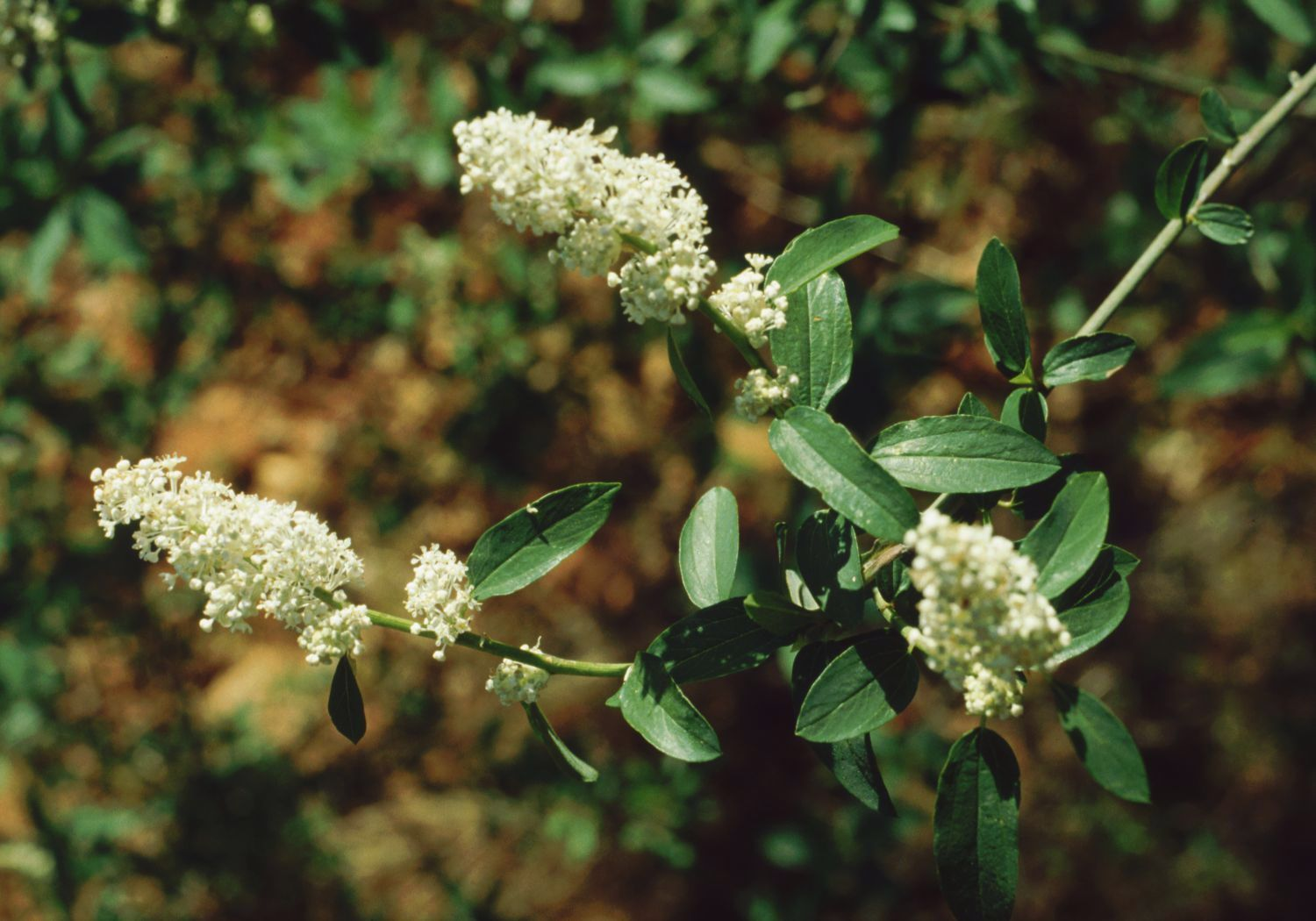 Ceanothus integerrimus, Kreuzdorngewächse (Rhamnaceae) - USA, Kalifornien/California: ESE Sheep Ranch (Calaveras County)